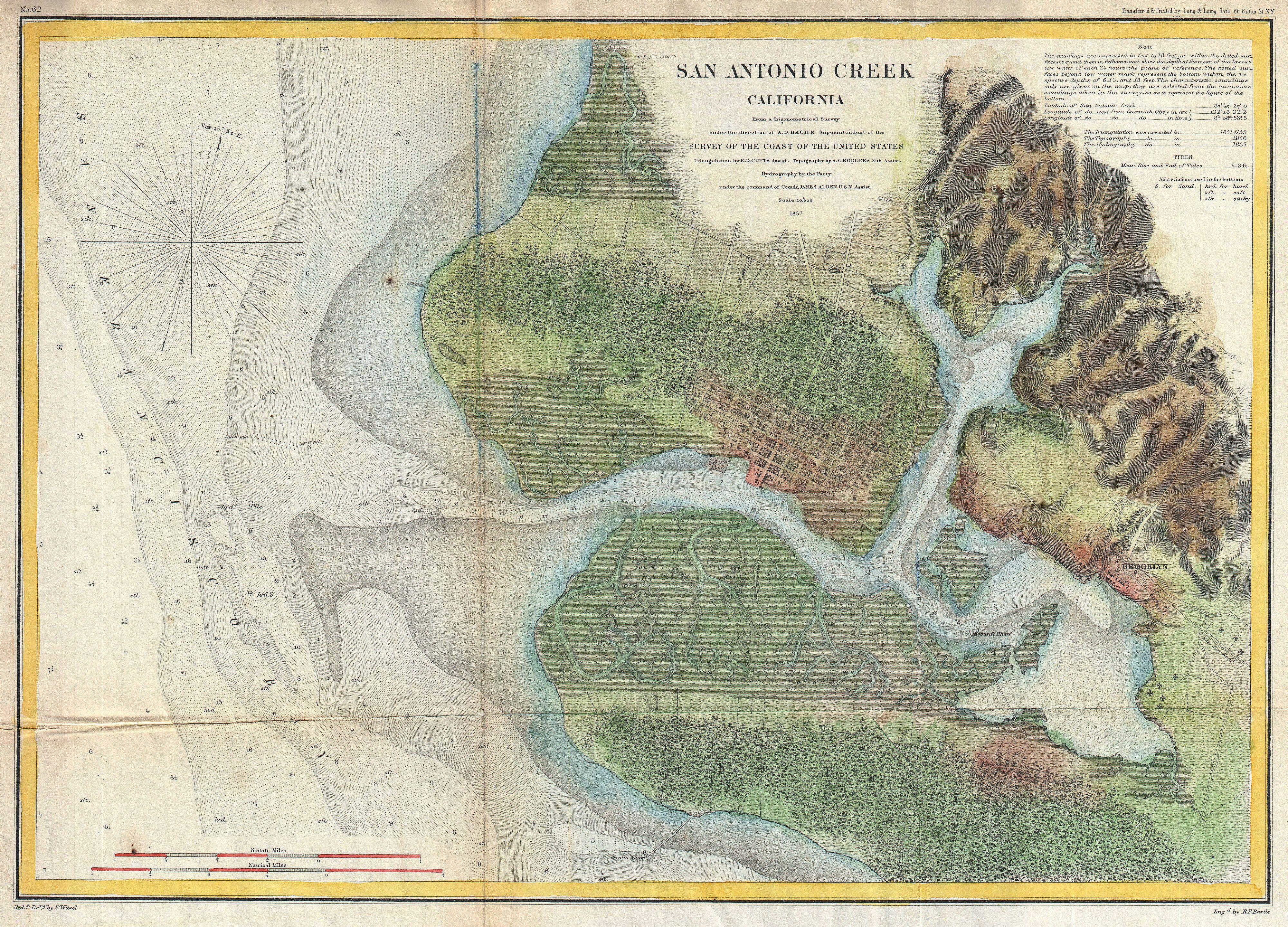 This is a rare 1857 U.S. Coast Survey chart of San Antonio Creek and Oakland, California. Oakland is an important Bay area city located directly east of San Francisco, just across the bay. Also shows Brooklyn, CA, and the road to San Jose, CA. Offers excellent inland detail, to the level of individual buildings, especially in the city of Oakland. Depth soundings throughout. The triangulation for this chart was accomplished by R. D. Cutts. The topography is the work A. F. Rodgers. The Hydrography was completed by a party under the command of James Alden. The entire work was produced in 1857 under the direction of A. D. Bache, superintendent of the United States Coast Survey.